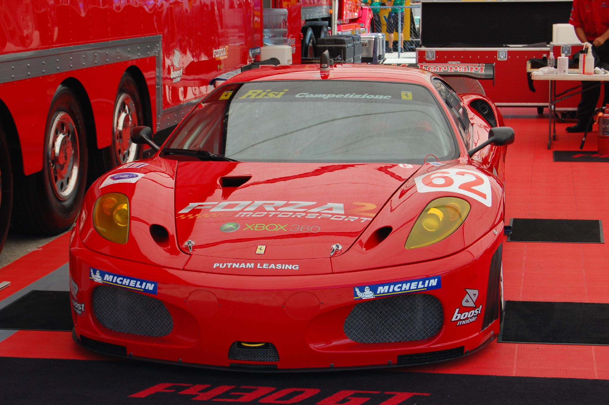 Risi Competizione's Ferrari F430 at the 2007 Generac 500